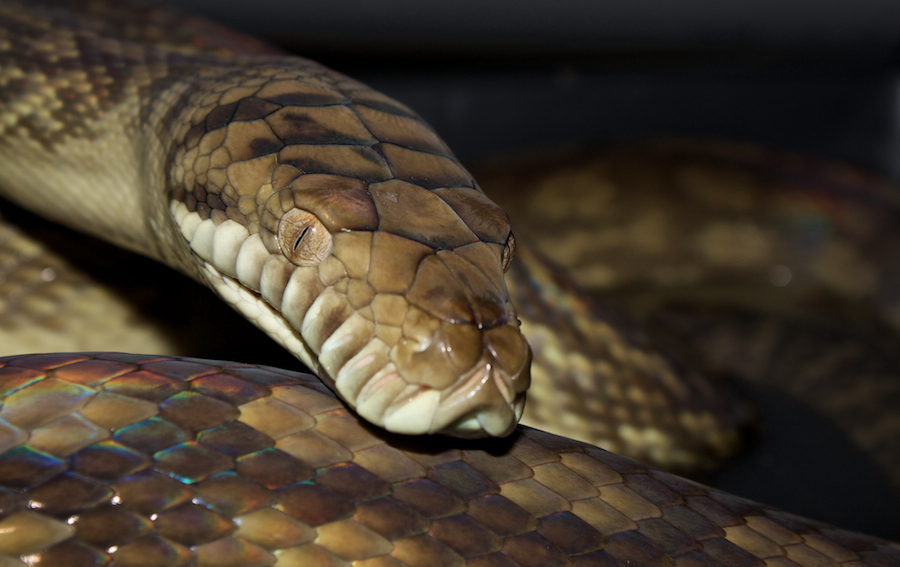 Adult Morelia amethistina from Merauke, southern Irian Jaya. (This specimen lives in captivity.) Photography by Matt